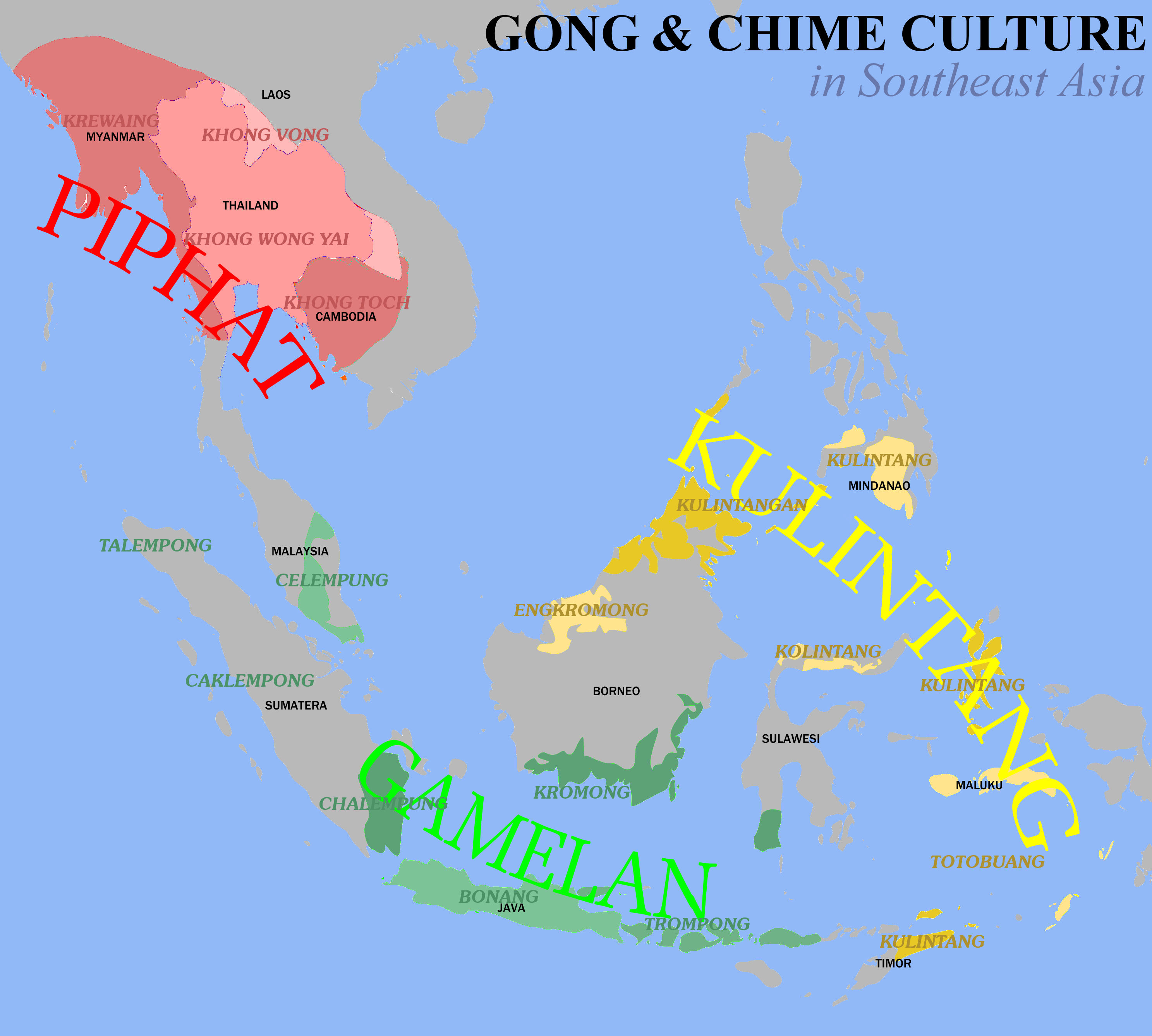 This map shows the extent of gong-chime culture throughout Southeast Asia. Included are the three major genres of music prevalent in the region: this includes the gamelan of western Indonesia, the kulintang of the southern Philippine, eastern Indonesia, and eastern Malaysia, and piphat of Thailand, Cambodia, Laos and Burma.